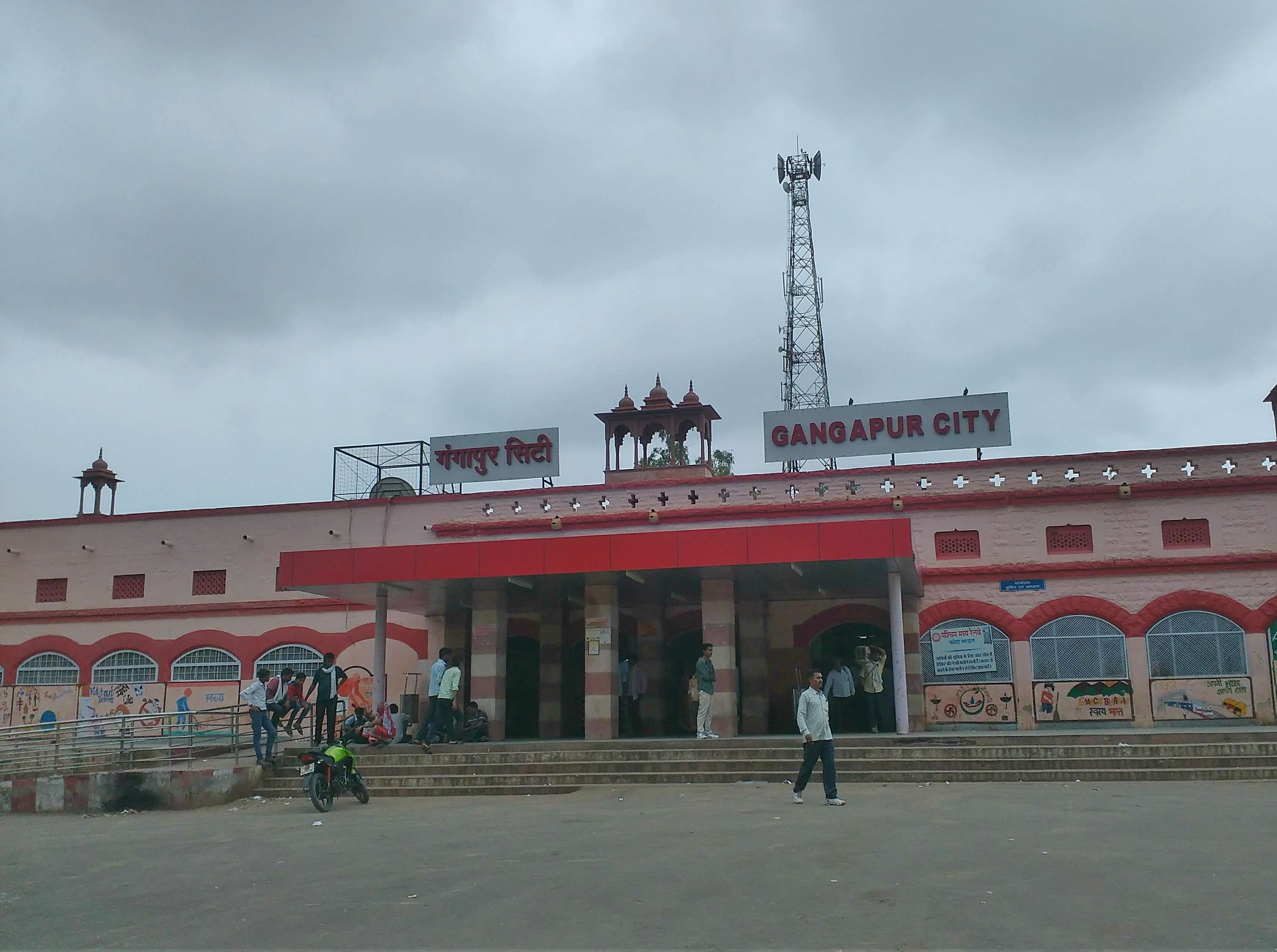 Ganagpur City Railway Station Main Entrance